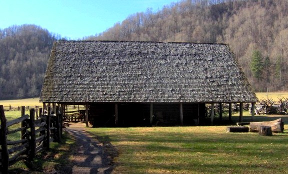 The Enloe Barn at the Oconaluftee Mountain Farm Museum in the Great Smoky Mountains. The barn was originally erected about 200 yards (182 meters) from its current location. It was built around 1880 by Joseph Enloe.